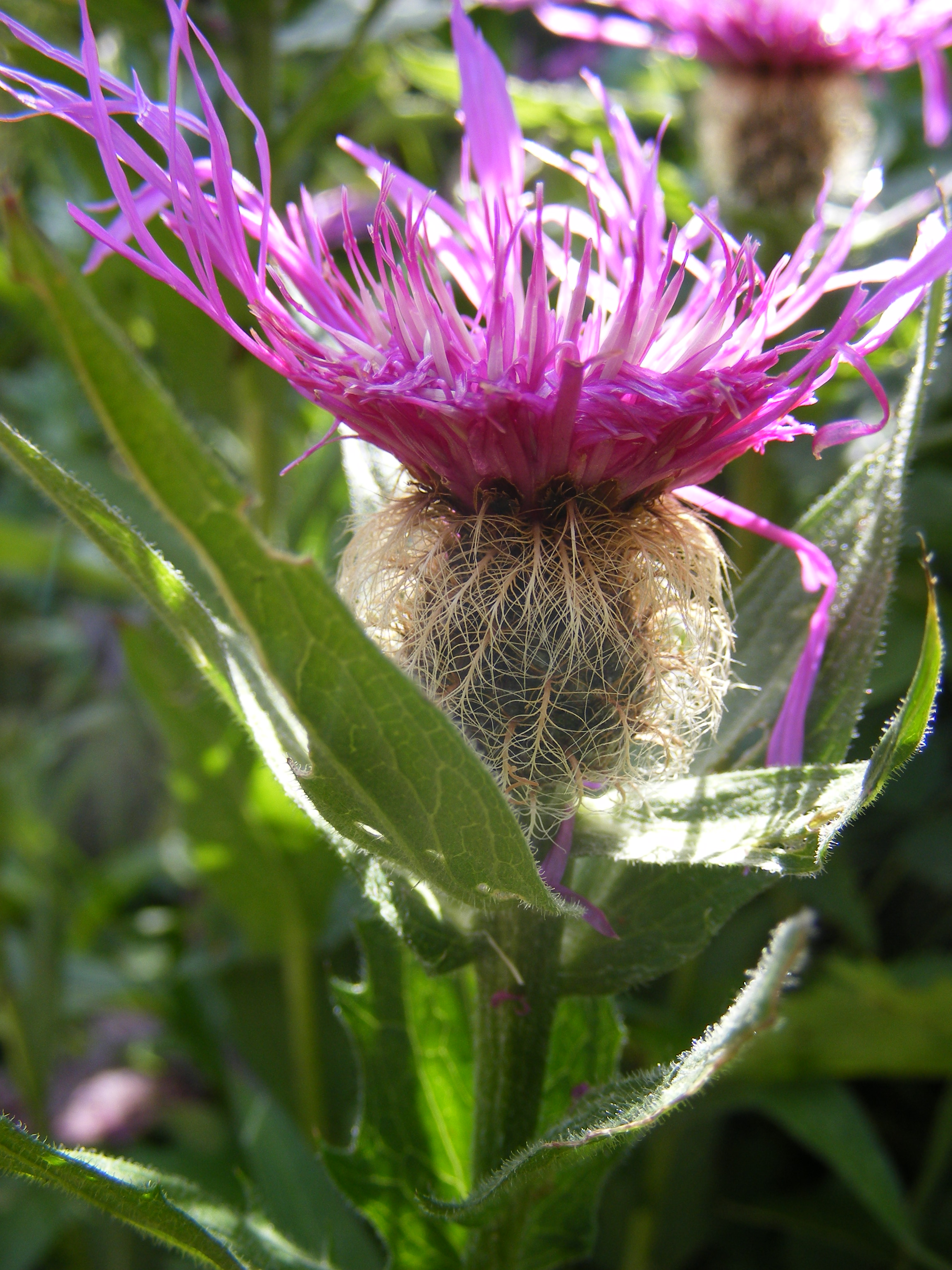 This photo shows Centaurea pseudophrygia flowerhead